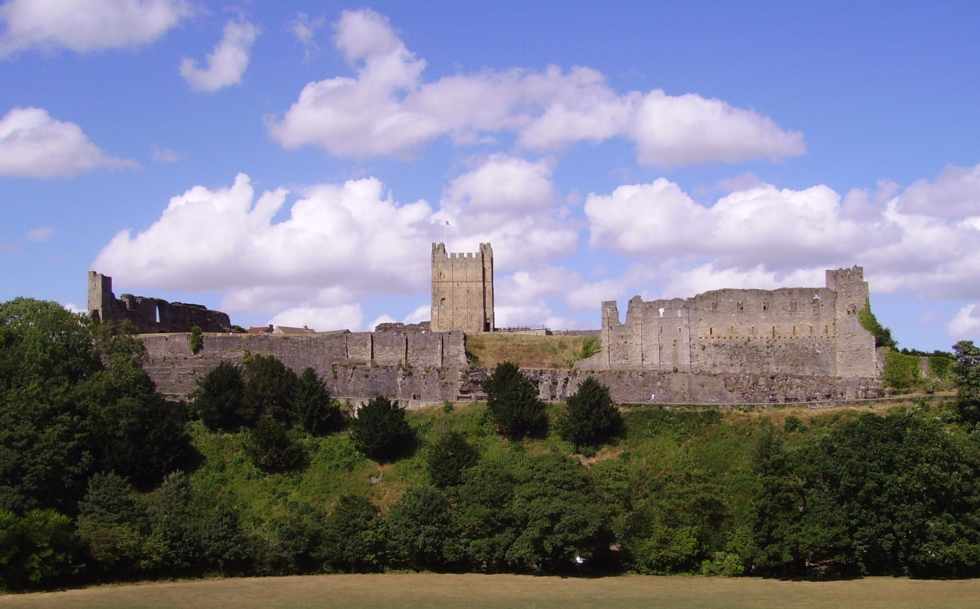 view of Richmond castle, United Kingdom